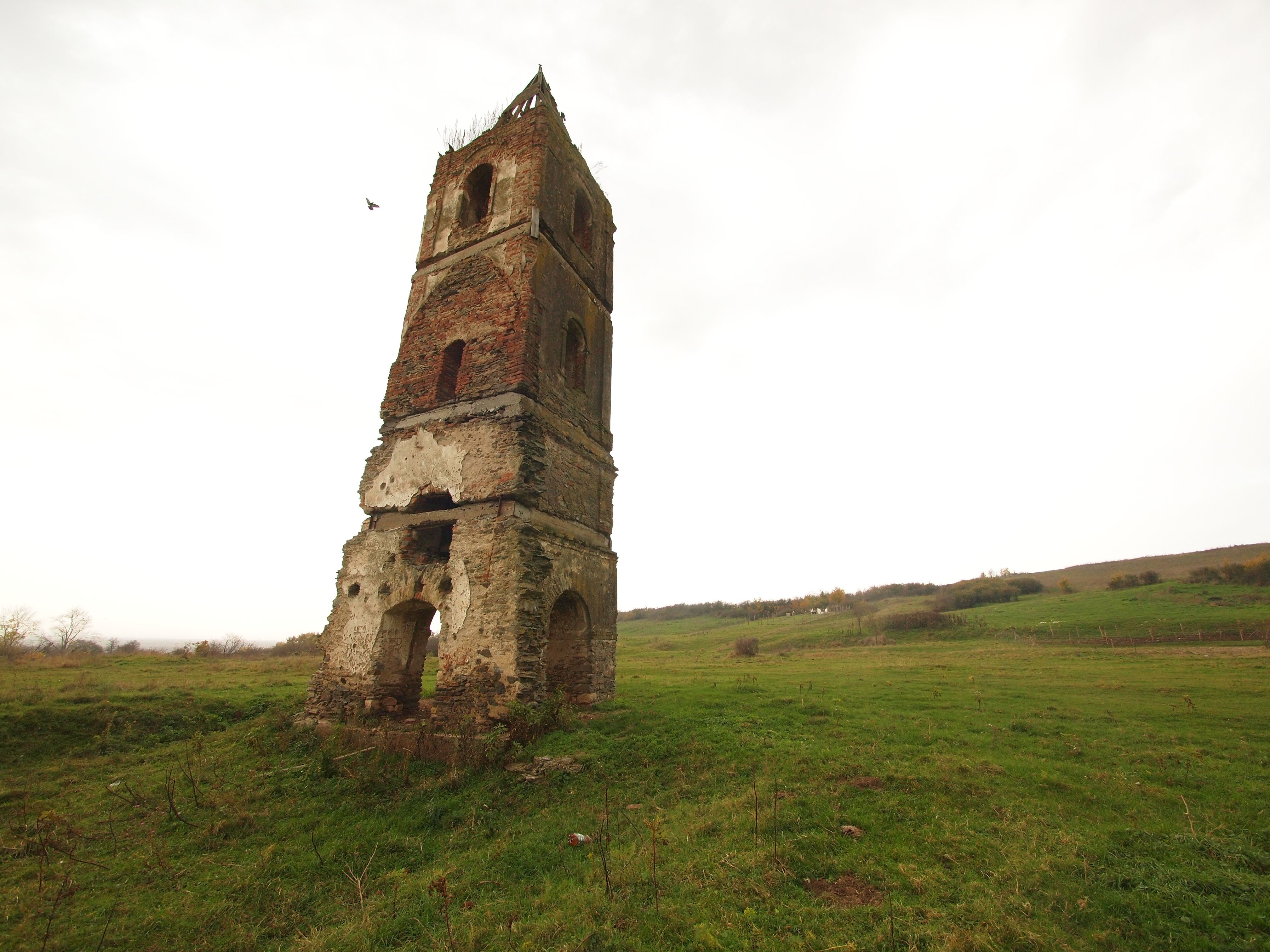 Ruined tower in Grădinari village, Caraș-Severin county, Romania